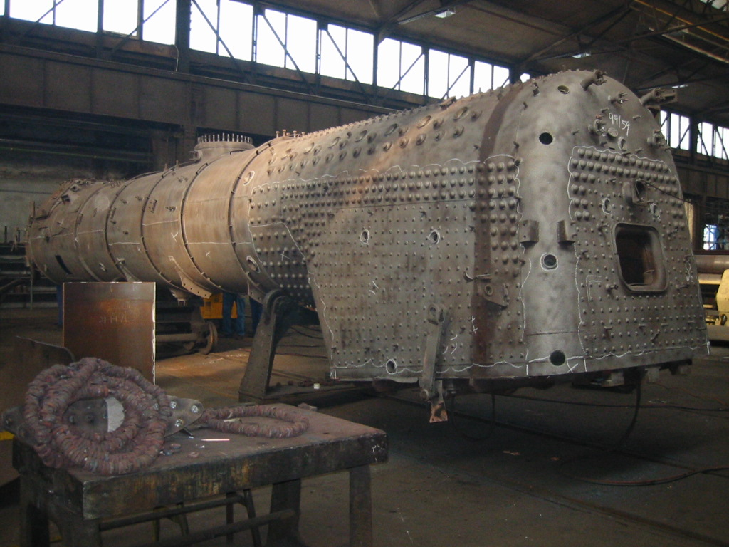 Steam locomotive boiler 39E for a Class 41 engine in the boiler's shop.